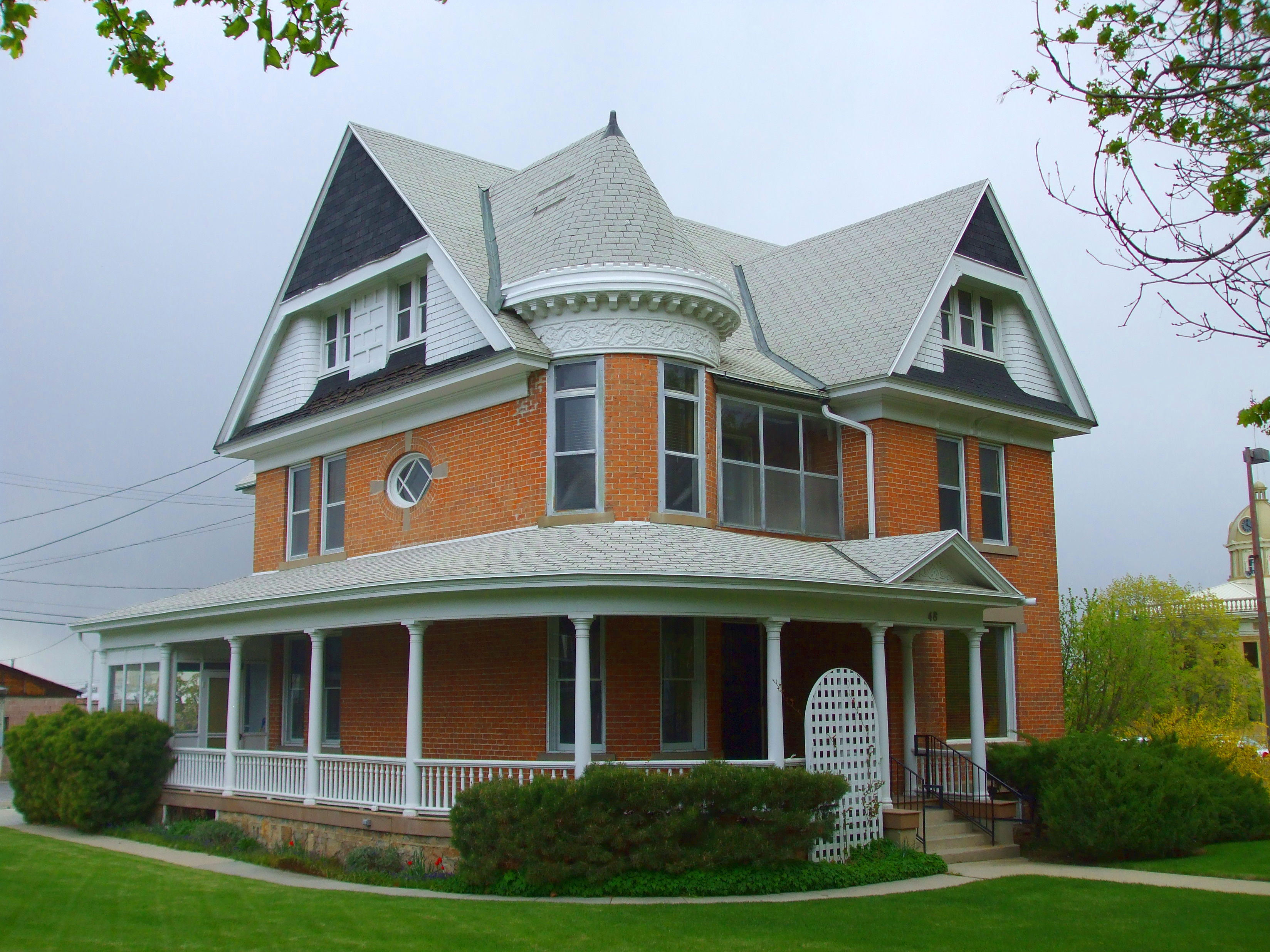 The Jonathan and Jennie Knudson House, a historic home in Brigham City, Utah, United States.